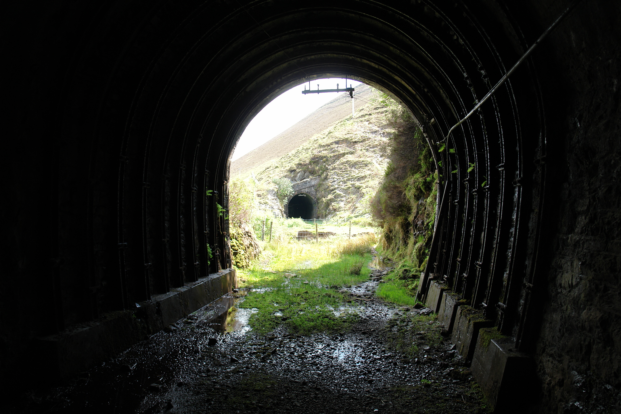 Tunnel of the Killorglin to Valentia Railway